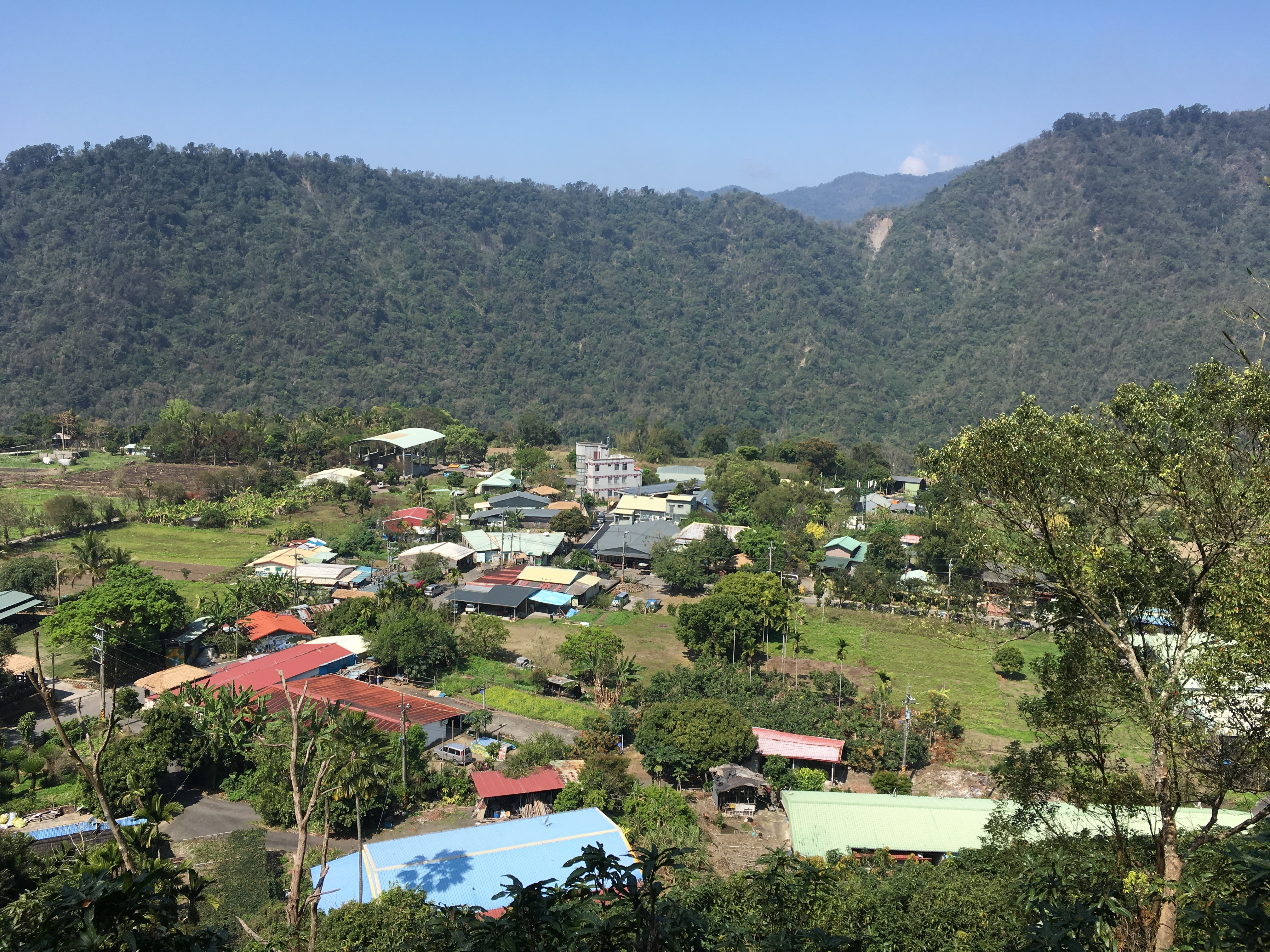 Cayamavana, a community of indigenous Cou people.